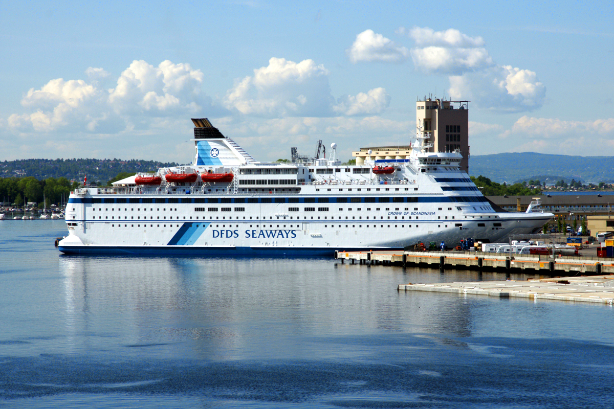 Crown of Scandinavia, a cruise ship belonging to DFDS Seaways. IMO Number: 8917613 MMSI Number: 219592000 Callsign: OXRA6 Length: 171 m Beam: 27 m